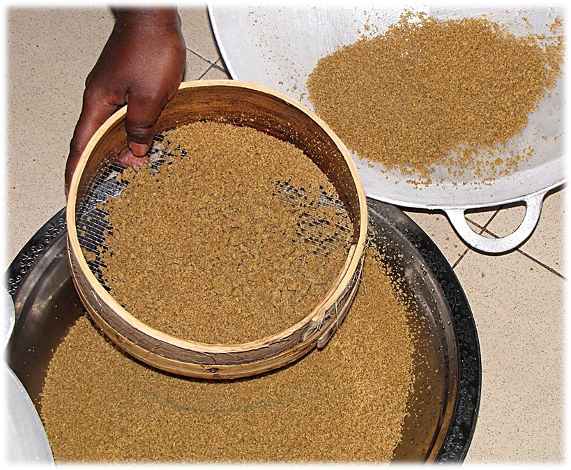 Cooked thièré millet couscous with lalo (baobab powder) sifted (tamé) into serving platter to break up any remaining clumps. Note: there are two types of 'lalo' powder from the same baobab tree (Adansonia digitata). A green lalo is made from the dried green leaves; a second type of lalo powder is made from the dried sap of the baobab, and is slightly pink and a darker pink when wet. This recipe shown used the lalo made from the baobab sap. It is easy to tell which lalo powder was used in the couscous by whether it has a shade of green or not. This is an image of food from Senegal